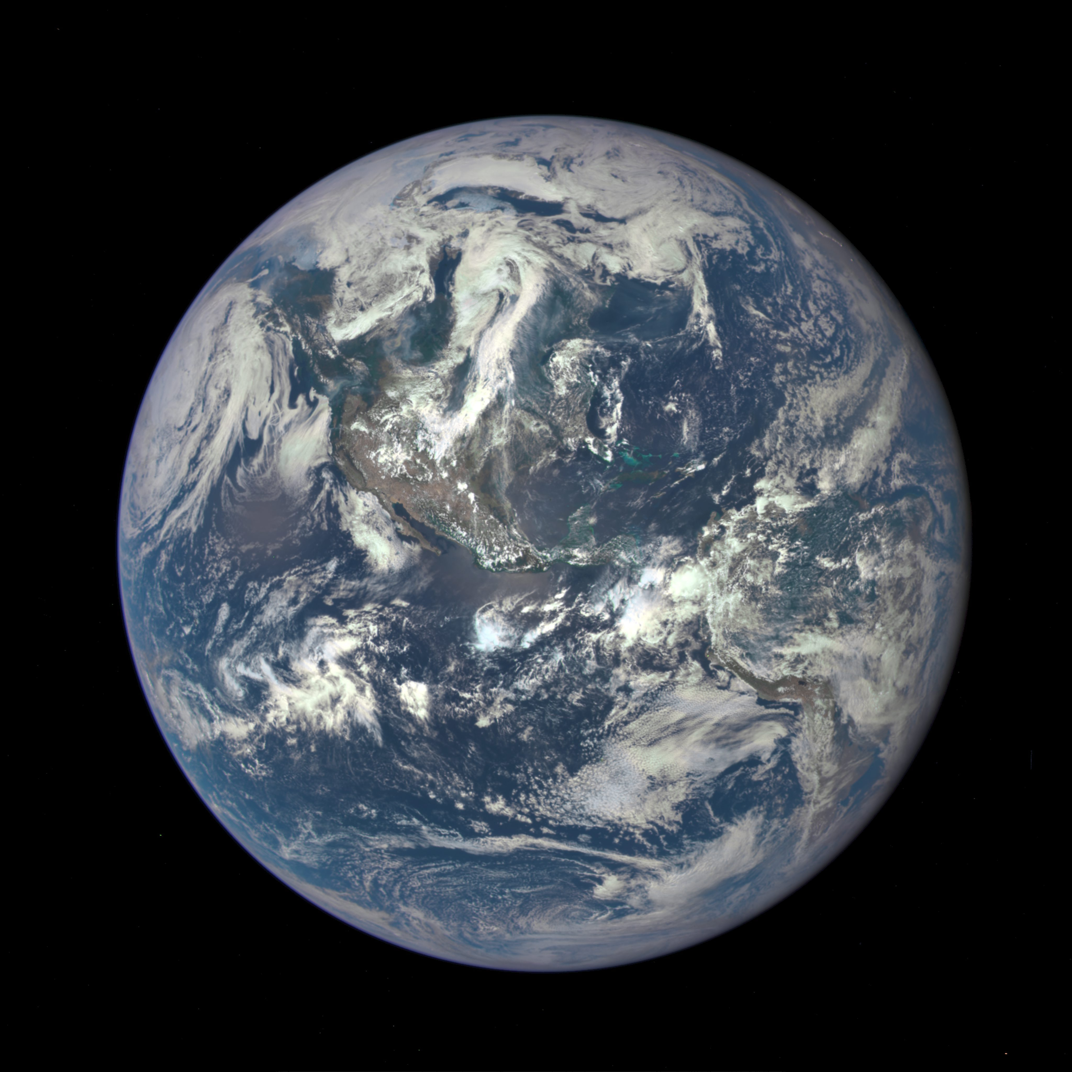 An image of Earth from heliocentric orbit, taken by EPIC on DSCOVR, an Earth observation satellite.